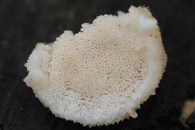 Postia tephroleuca from Commanster, Belgium. The determination of the species shown in this picture has been verified.